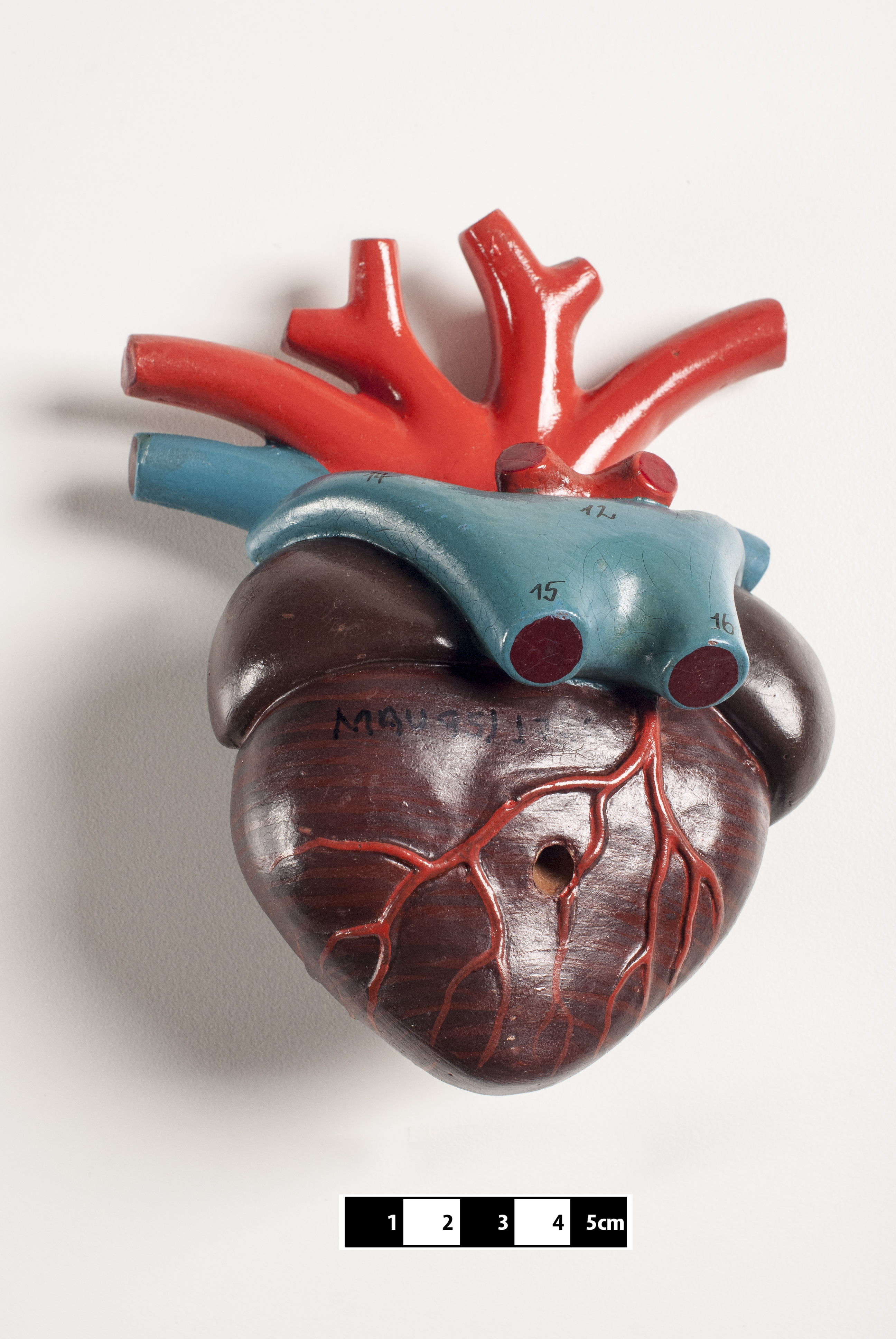 Didactic model of a amphibian heart. Teaching model representing different parts of the heart on display at the Museum of Veterinary Anatomy, FMVZ USP. This file was published as the result of a partnership between the Museum of Veterinary Anatomy FMVZ USP, the RIDC NeuroMat and the Wikimedia Community User Group Brasil. This GLAM project is reported. Photography: Museum of Veterinary Anatomy FMVZ USP.